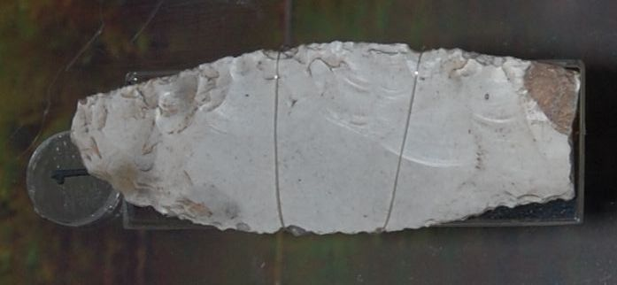 A leaf-point from Cresswell Crags, Derbyshire, England, photographed at Derby Museum and Art Gallery + rotated.